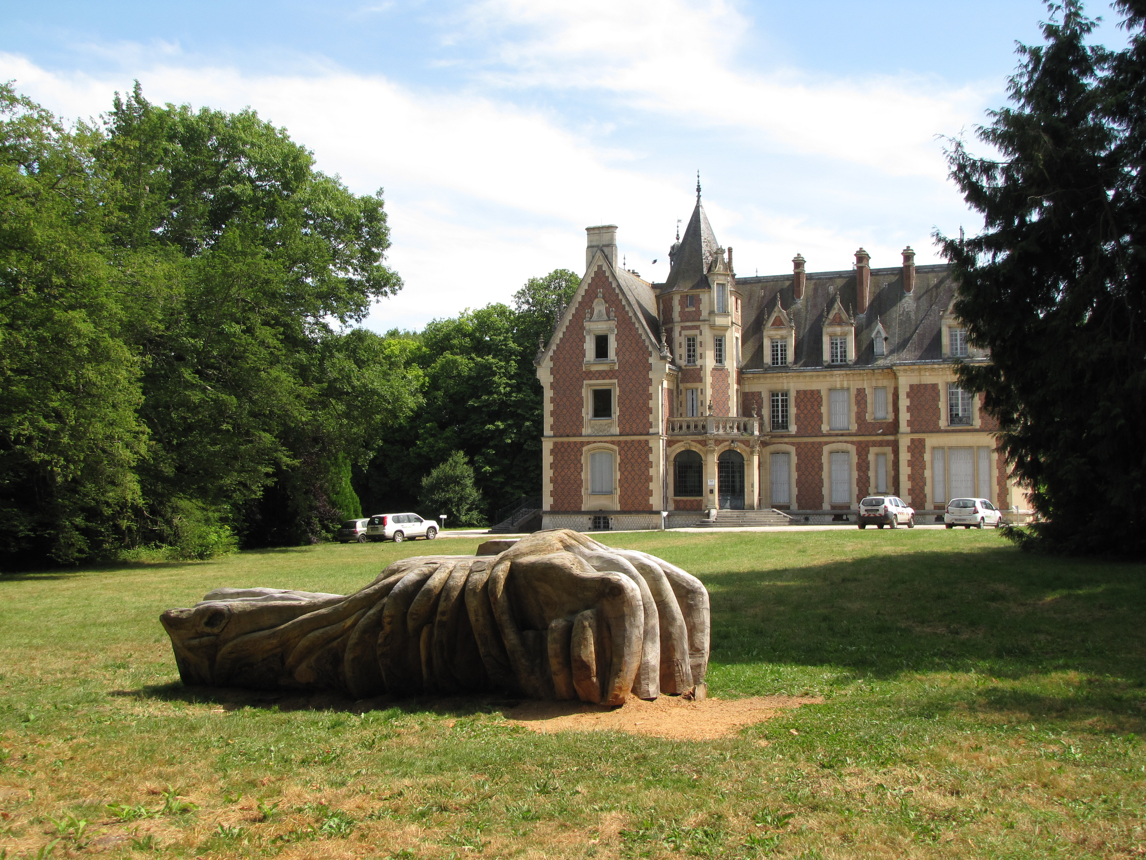 Arboretum National des Barres, Nogent-sur-Vernisson, Loiret, France. The castle, owned by the Vilmorin family until acquired by the French government in 1936.